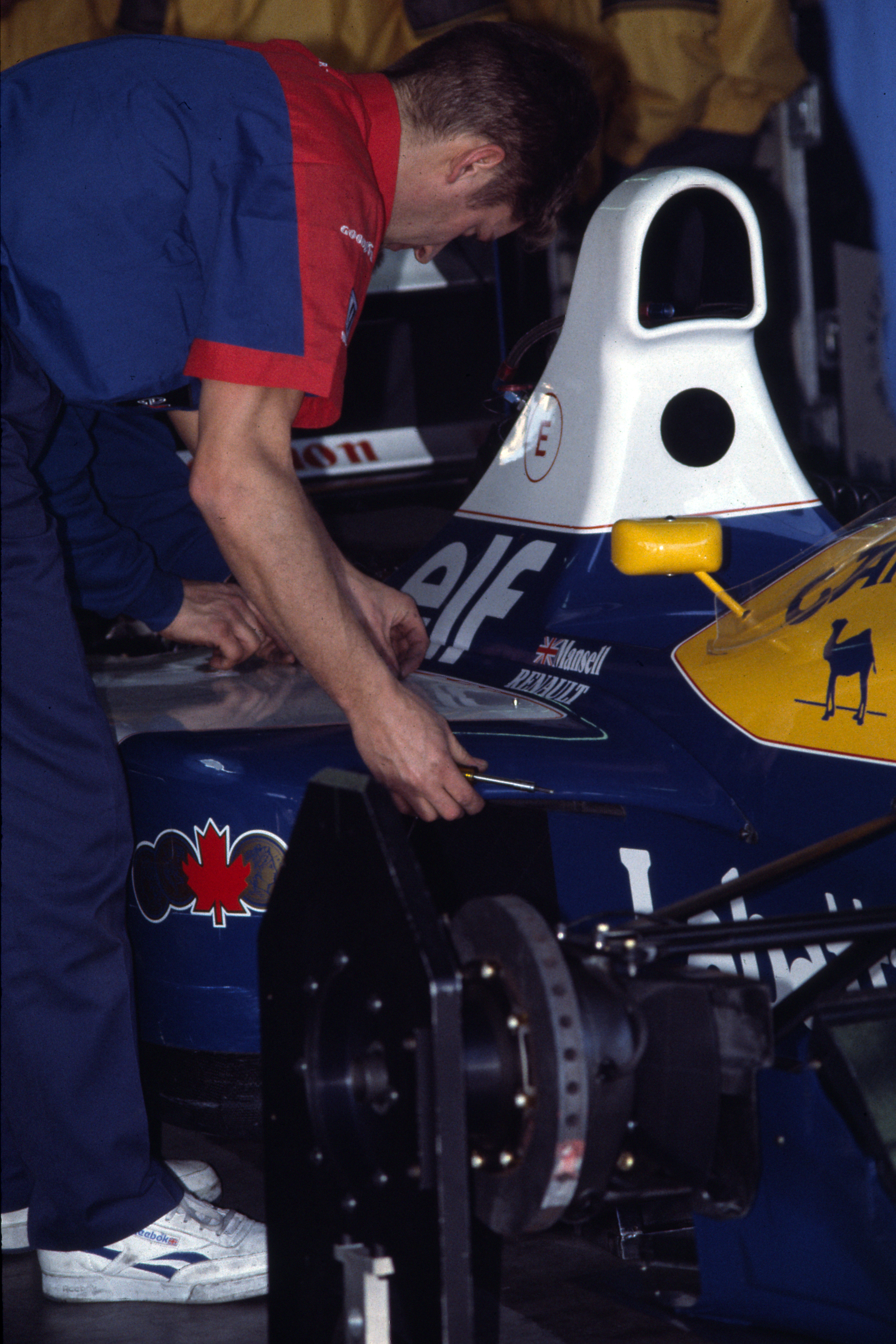 A mechanic working on Nigel Mansell's Canon Williams at the 1991 United States Grand Prix.